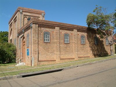 Balgowlah Substation: North Western Elevation